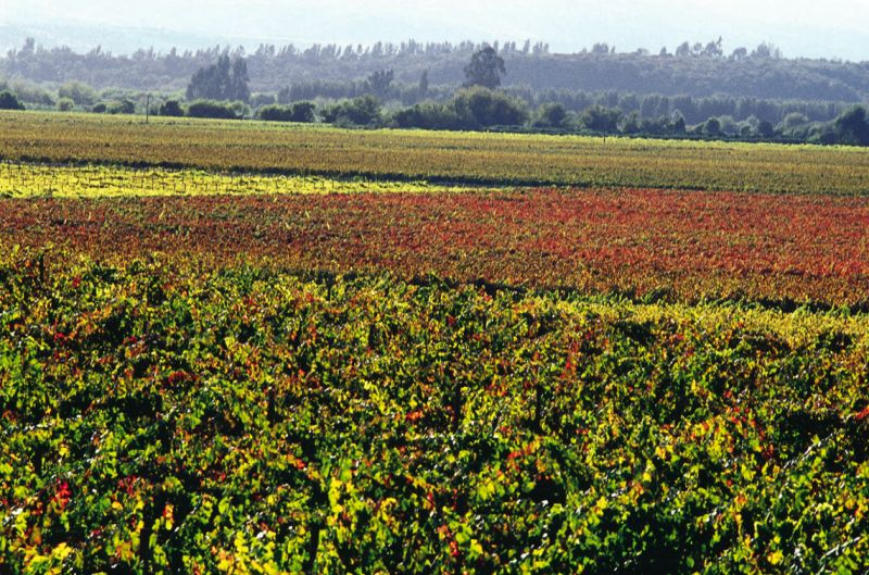 Undurraga Valle Maipo